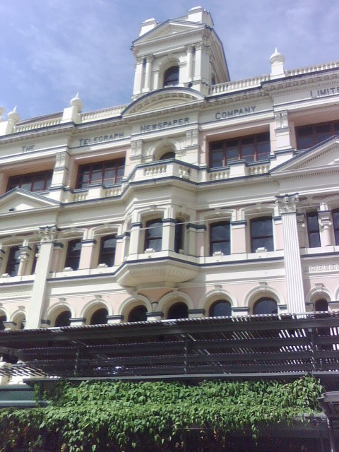 Facadism, such as this example at the Myer Centre, helped to preserve some Victorian era building facades along the Queen Street Mall, Brisbane.